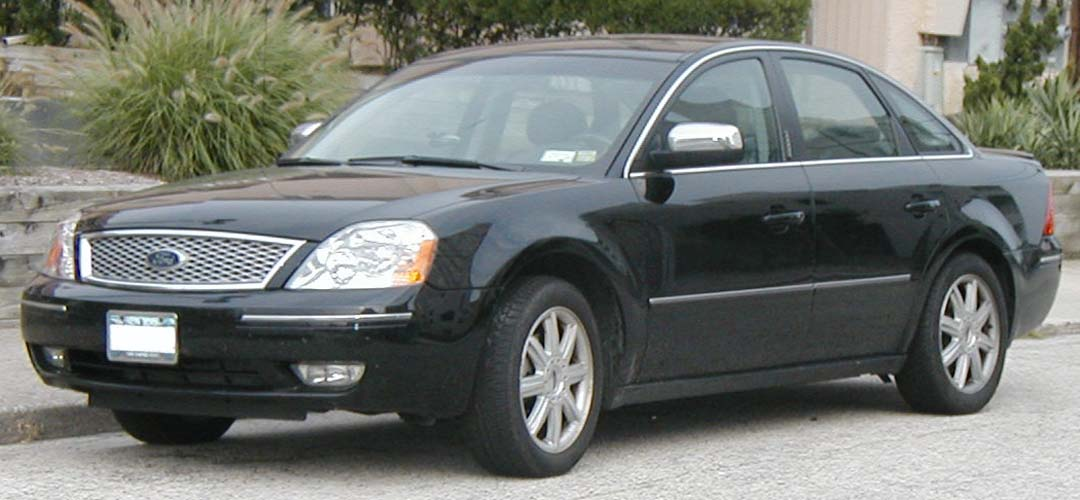 2005-2007 Ford Five Hundred photographed in USA.